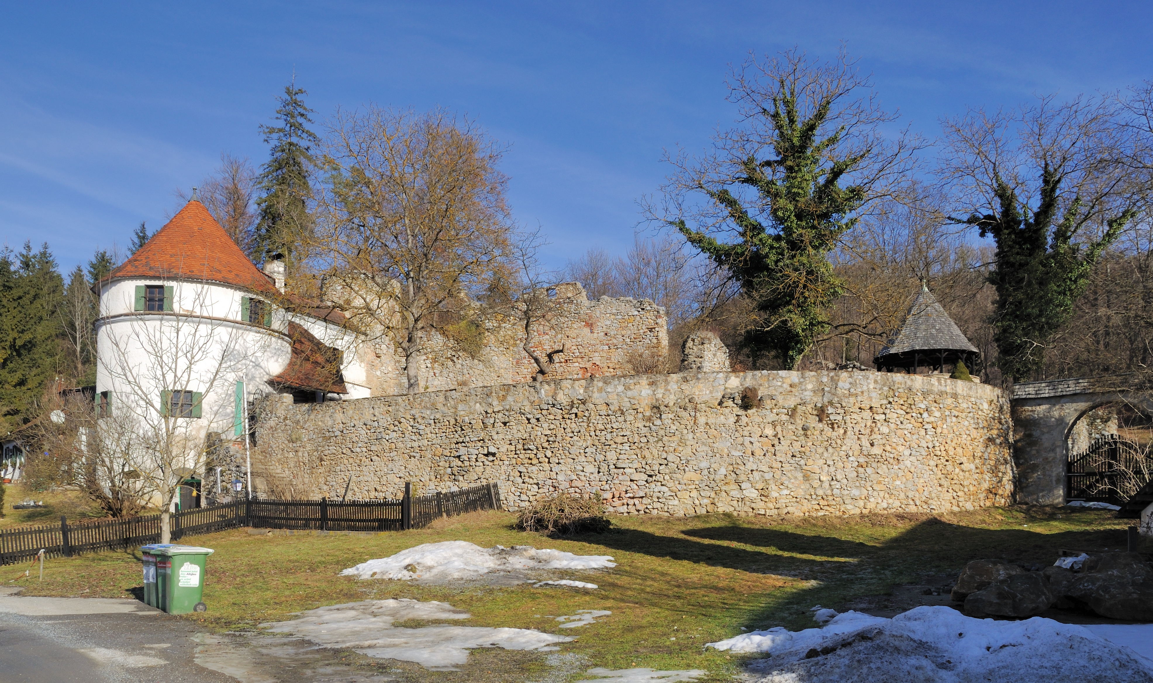 Thal: ruin Thalberg (Unterthal)